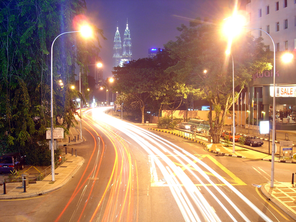 The busy Jalan Ampang at night, linking the eastern suburbs of Ampang and Desa Pandan to the central Kuala Lumpur.